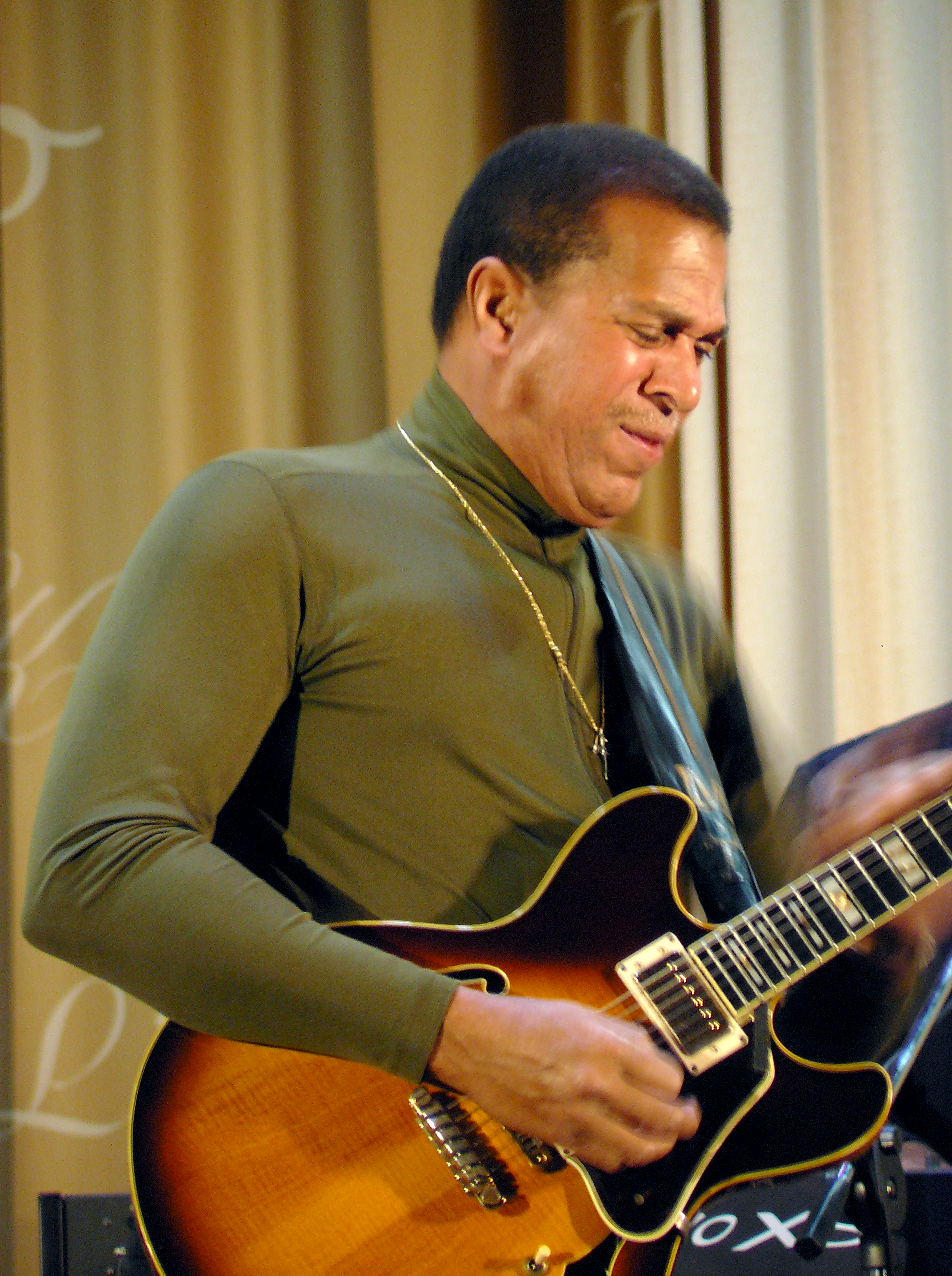 Melvin Taylor Blues Band at Мастер Класс in Kiev, Ukraine. American Music Series 2010.